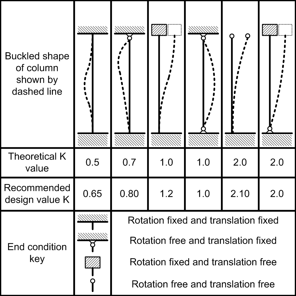 Descriptive table of structural column effective length (K factor) values